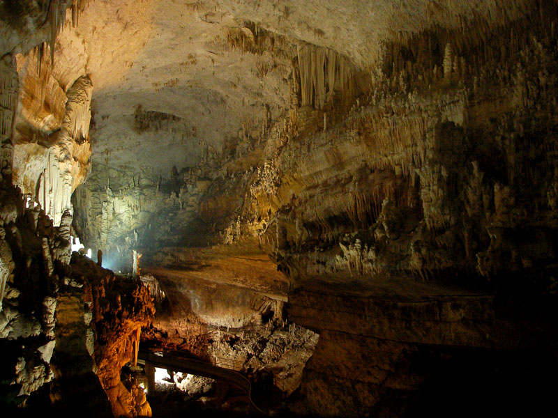 SANYO DIGITAL CAMERA